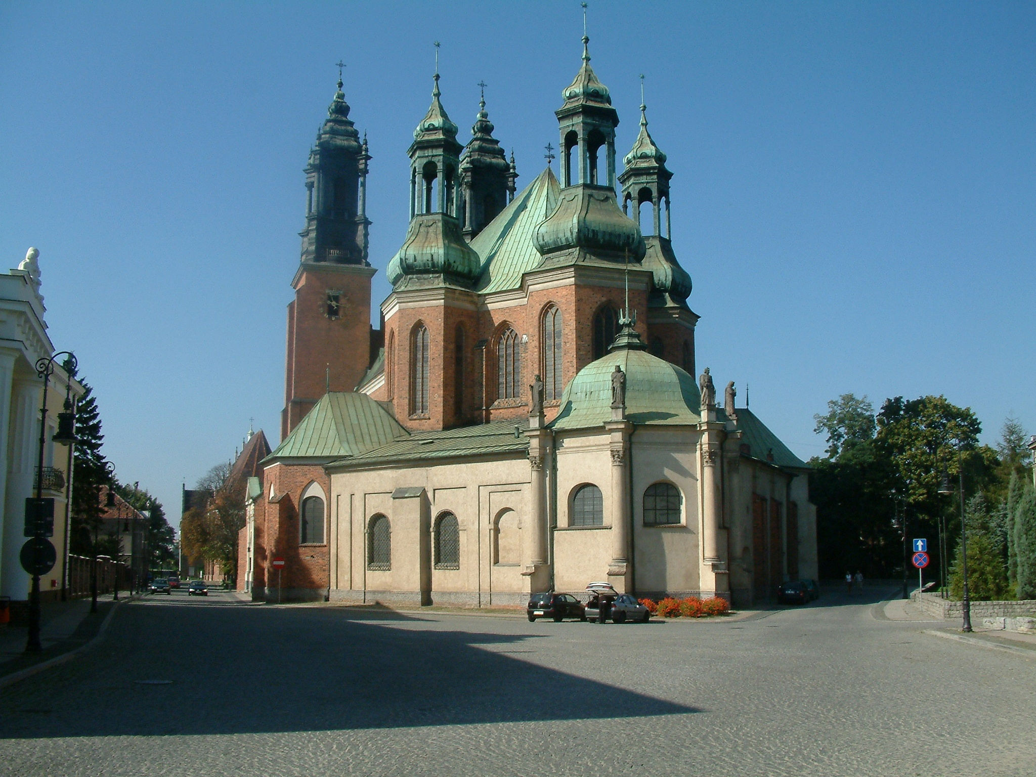 Eastern side of Cathedral in Poznań